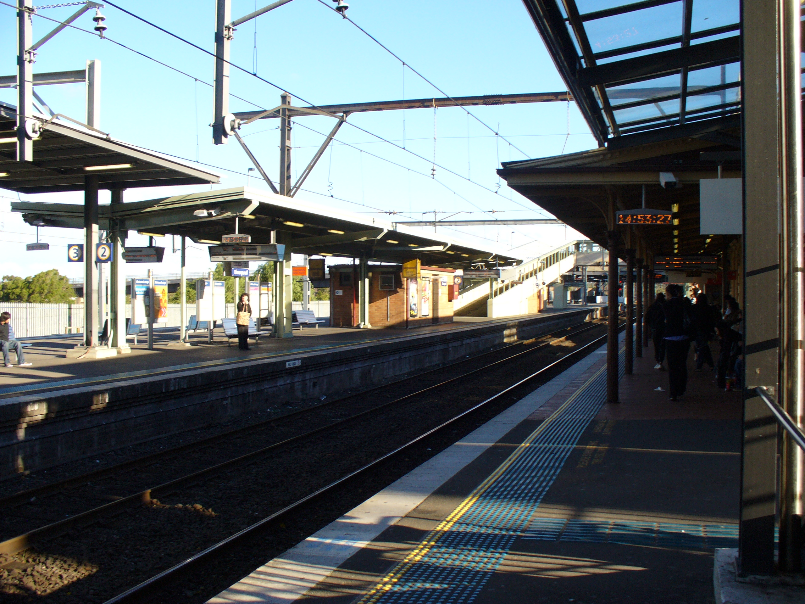 Liverpool railway station, Sydney, New South Wales, Australia - platform area